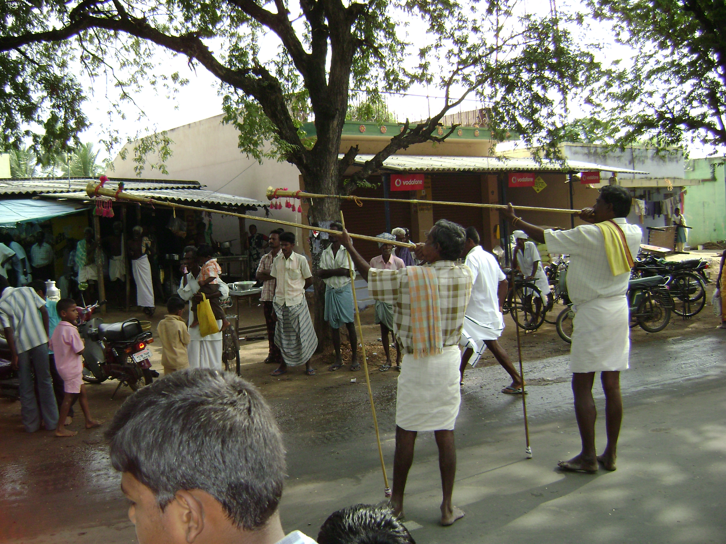 Ekkalam (எக்காளம்) A traditional music instrument being used in a village celebration in Tamil Nadu